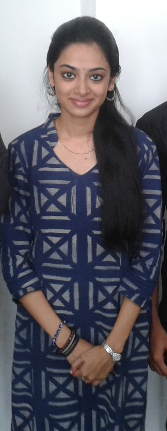 Indian Actress Gautami Nair for the shooting of the 2013 Malayalam film 'Koothara'. The shooting happened at Calicut University Institute of Engineering and Technology (CUIET). The uploaded image is a cropped and edited version as the original contained a lot of unwanted areas